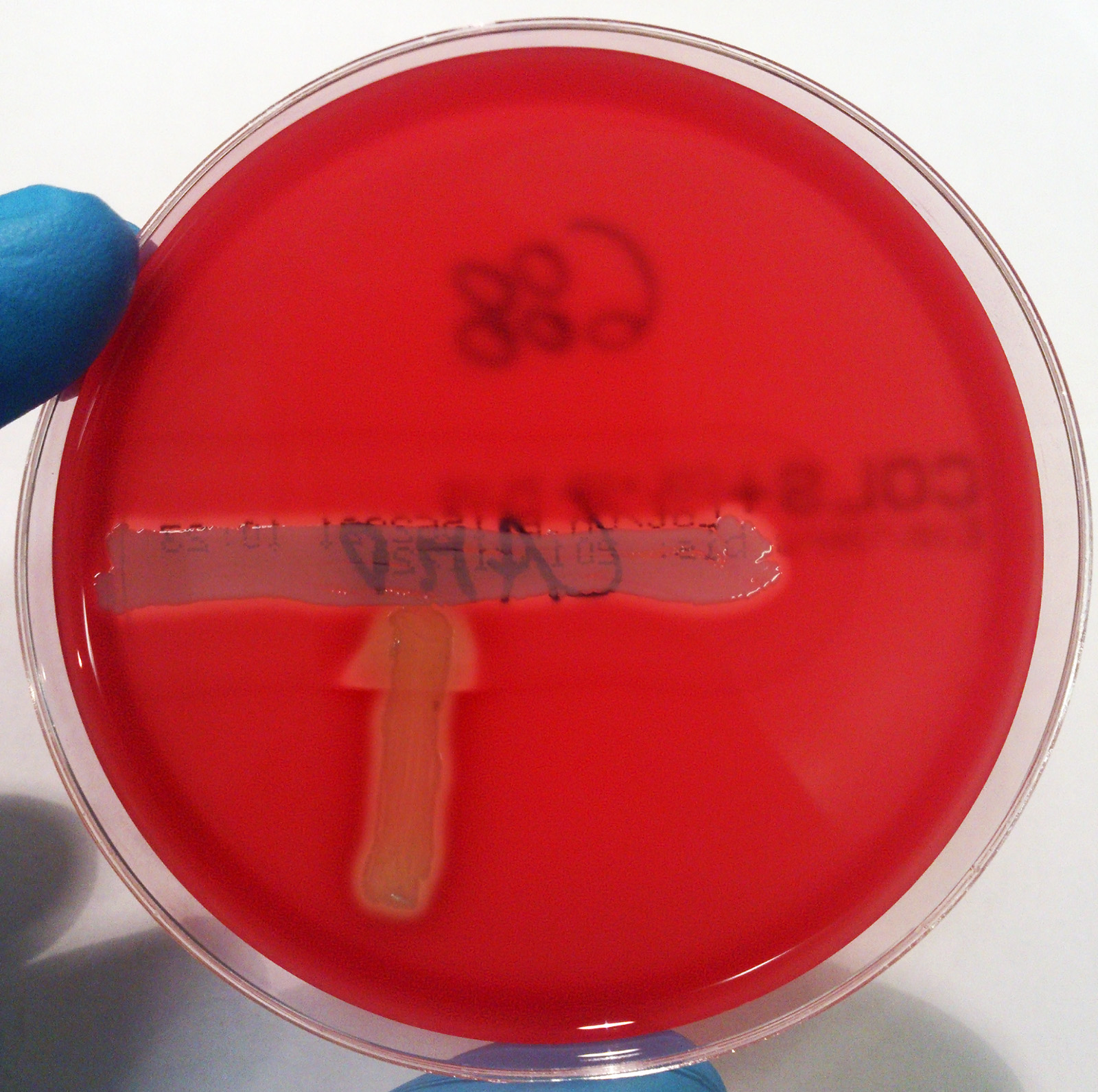 Positive CAMP test of Streptococcus agalactiae on COLS agar.